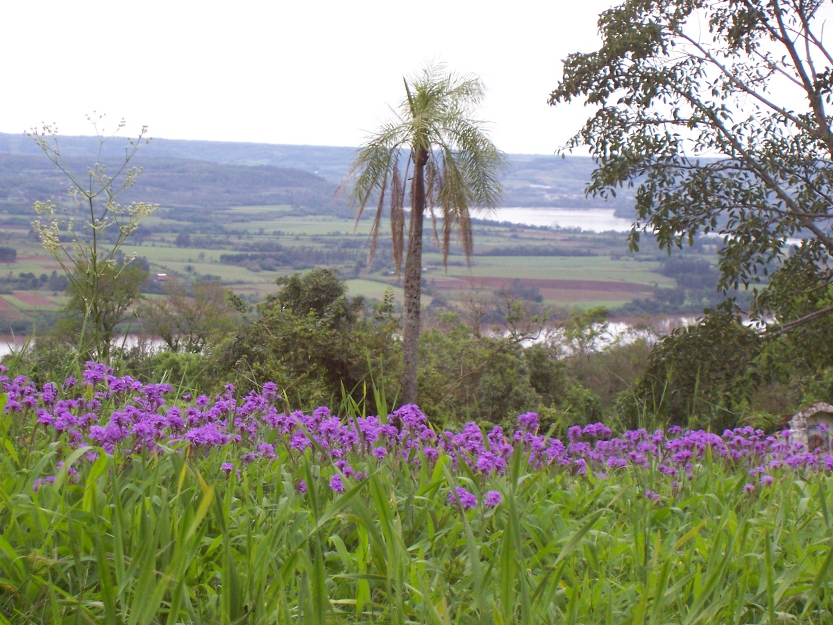 Photo of the Uruguay River, in the Monk Hill, San Javier, Misiones, Argentina. To the bottom, the Uruguay river that for of border with Brazil.